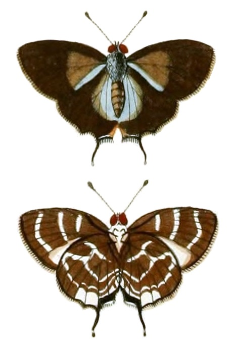 Plate CCCLXXIX Warning: some taxa/names may be misidentified/misapplied or placed in a different genus. Thereus lausus